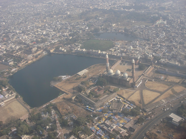 Top view of Taj-Ul-Masjid, Bhopal